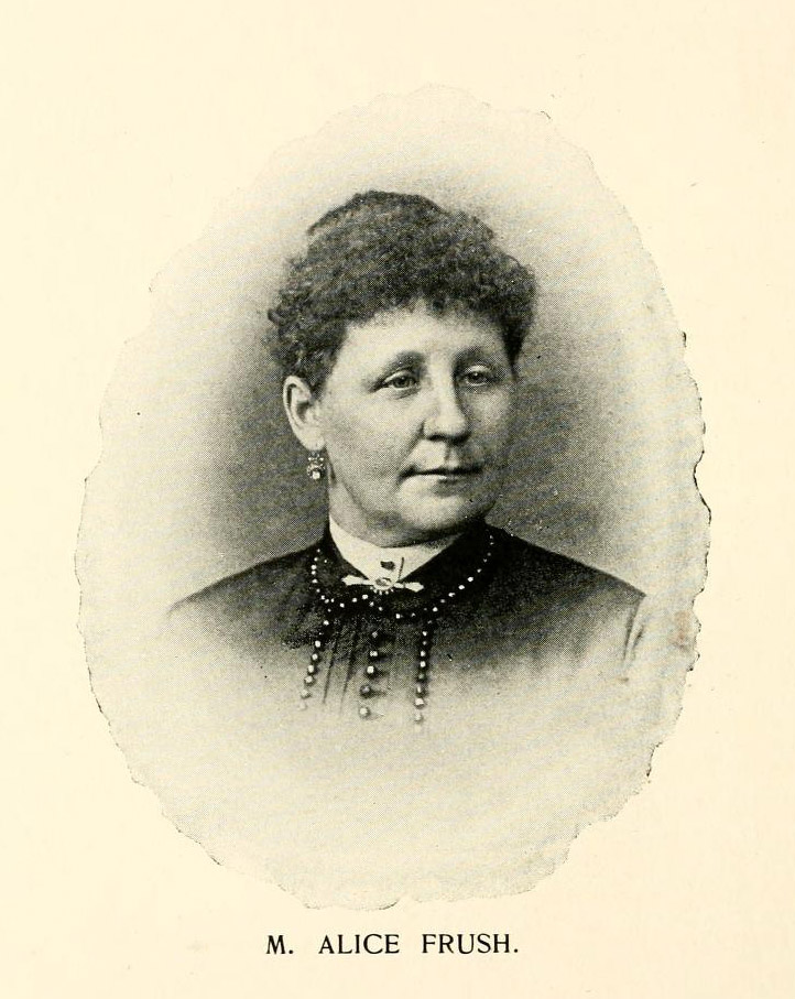 An older white woman with dark curl hair in a bun, wearing a dark dress.